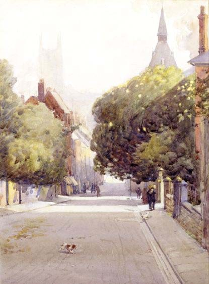 Green Street Derby by Ernest Ellis Clark